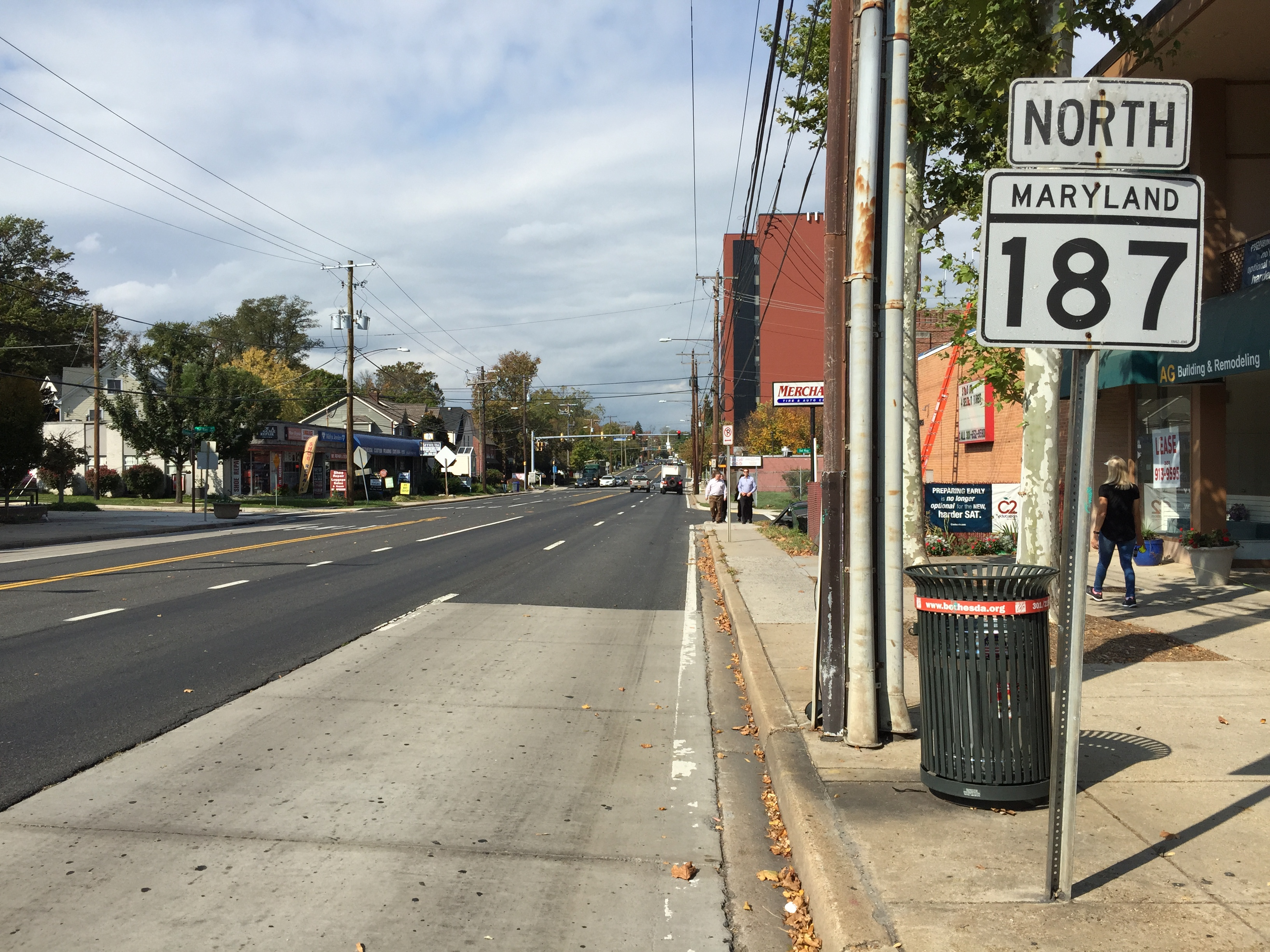 View north along Maryland State Route 187 (Old Georgetown Road) between Cordell Avenue and Del Ray Avenue in Bethesda, Montgomery County, Maryland